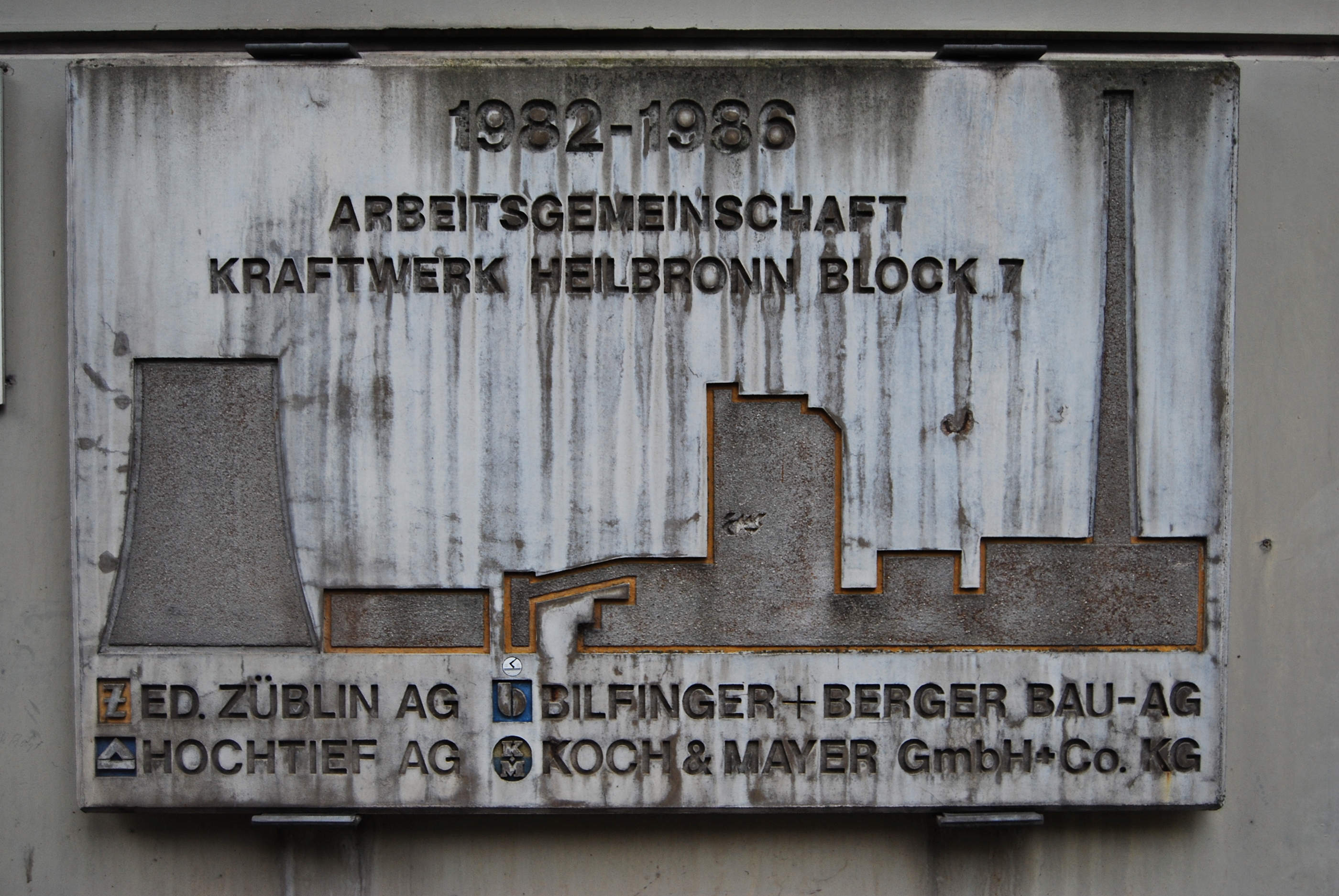 Plaque for the construction of unit 7, Heilbronn power plant.